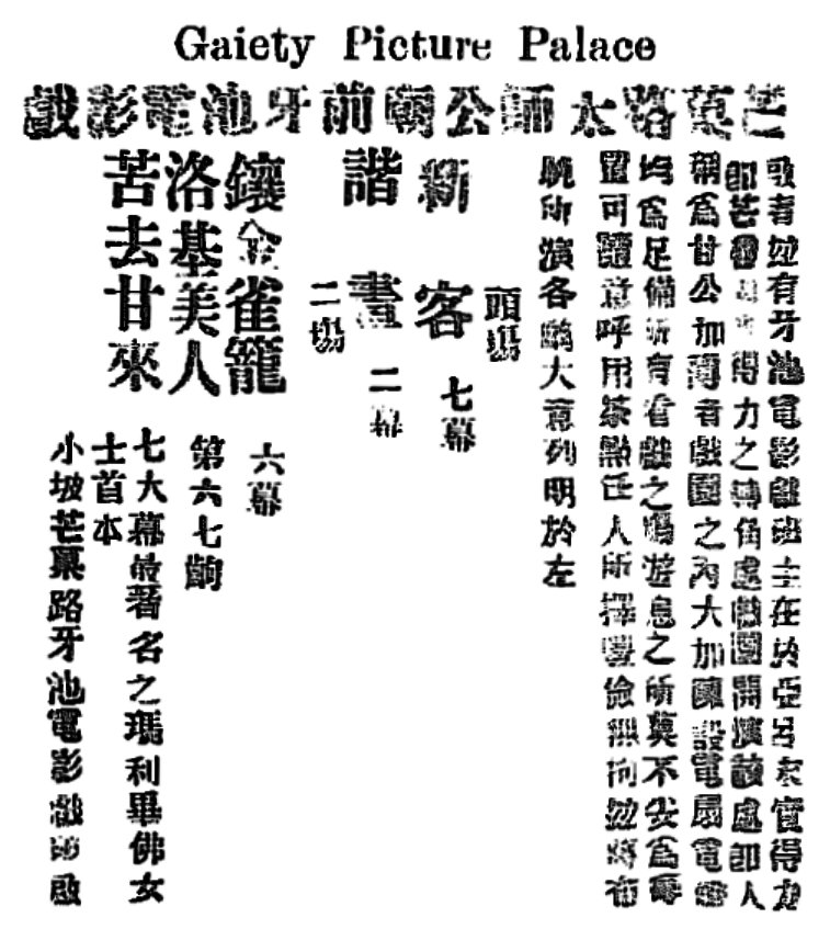 silent movie "New Friend (新客)" showing advertisement in "Gaiety Picture Place (牙池電影戲)", the cinema was just in front of a Chinese temple, between Albert Street (芒果律) and Bencoolen Street (Bencoolen Street), Singapore.